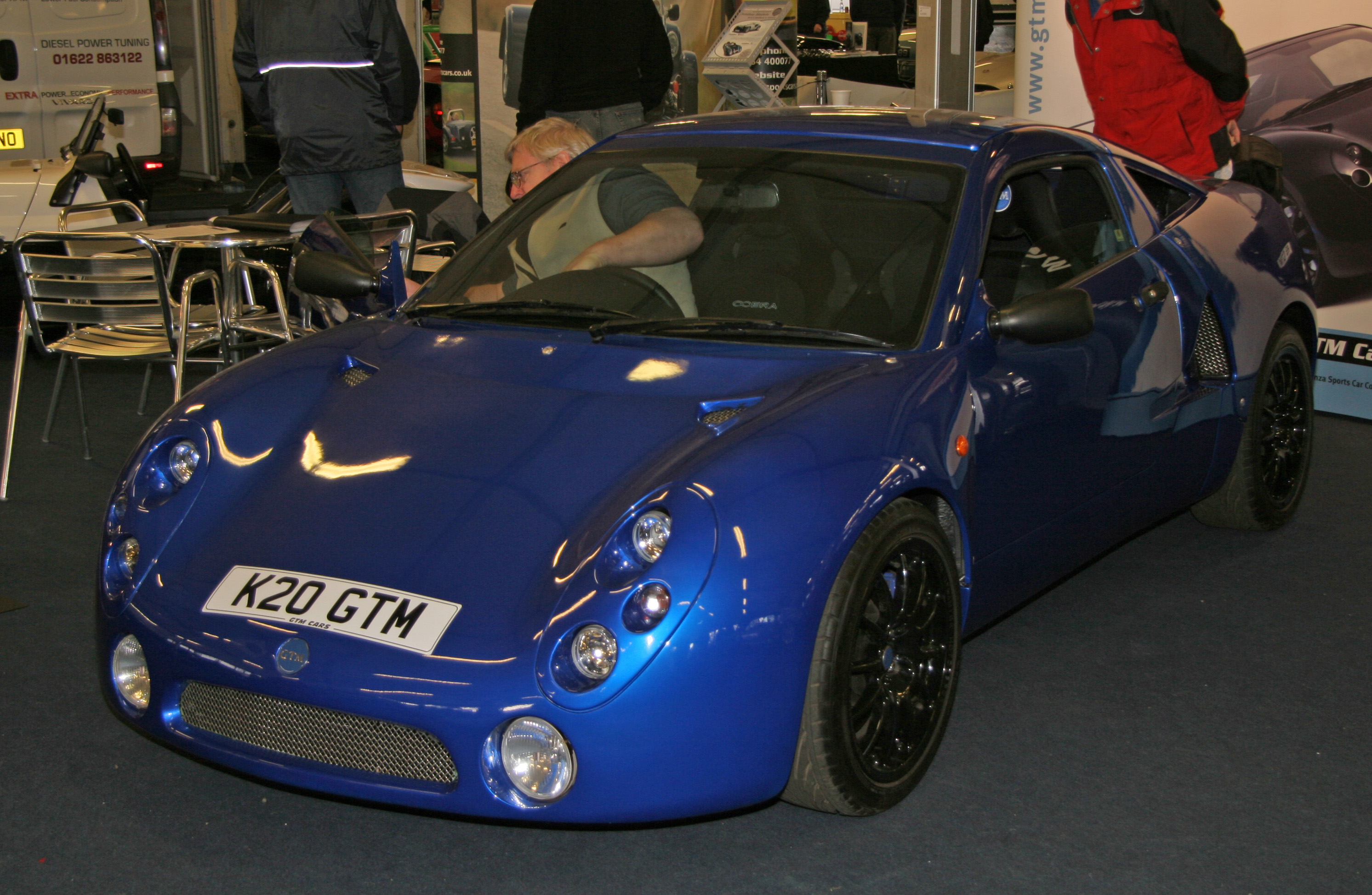 GTM Libra A bit like a baby TVR Tuscan from the front?